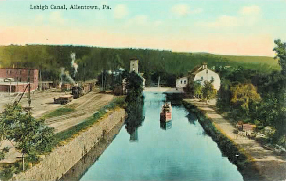 1910 - Lehigh Canal with Canal Boat